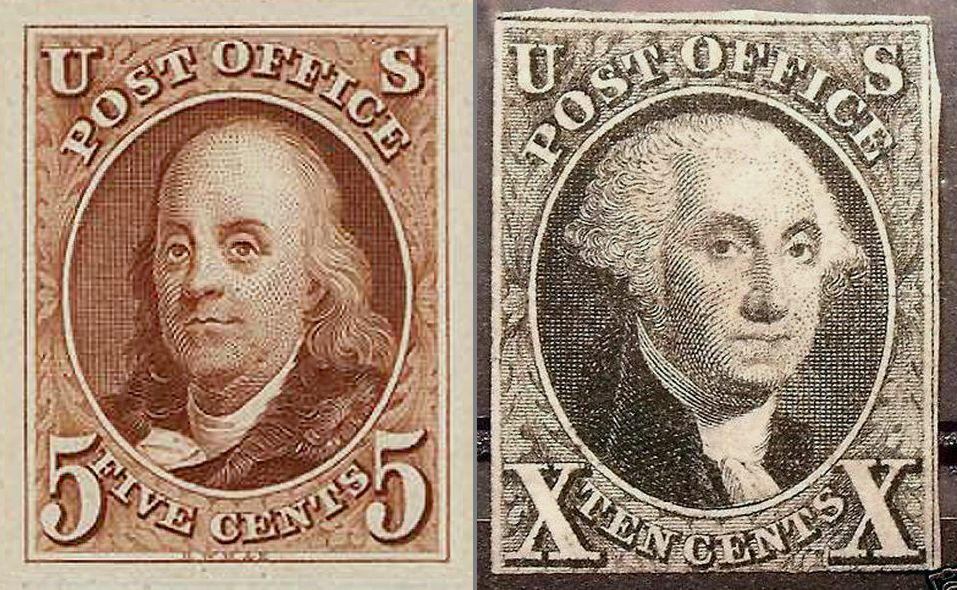 First US Postage Stamps, George Washington and Benjamin Franklin, issue of 1847, 5c and 10c.